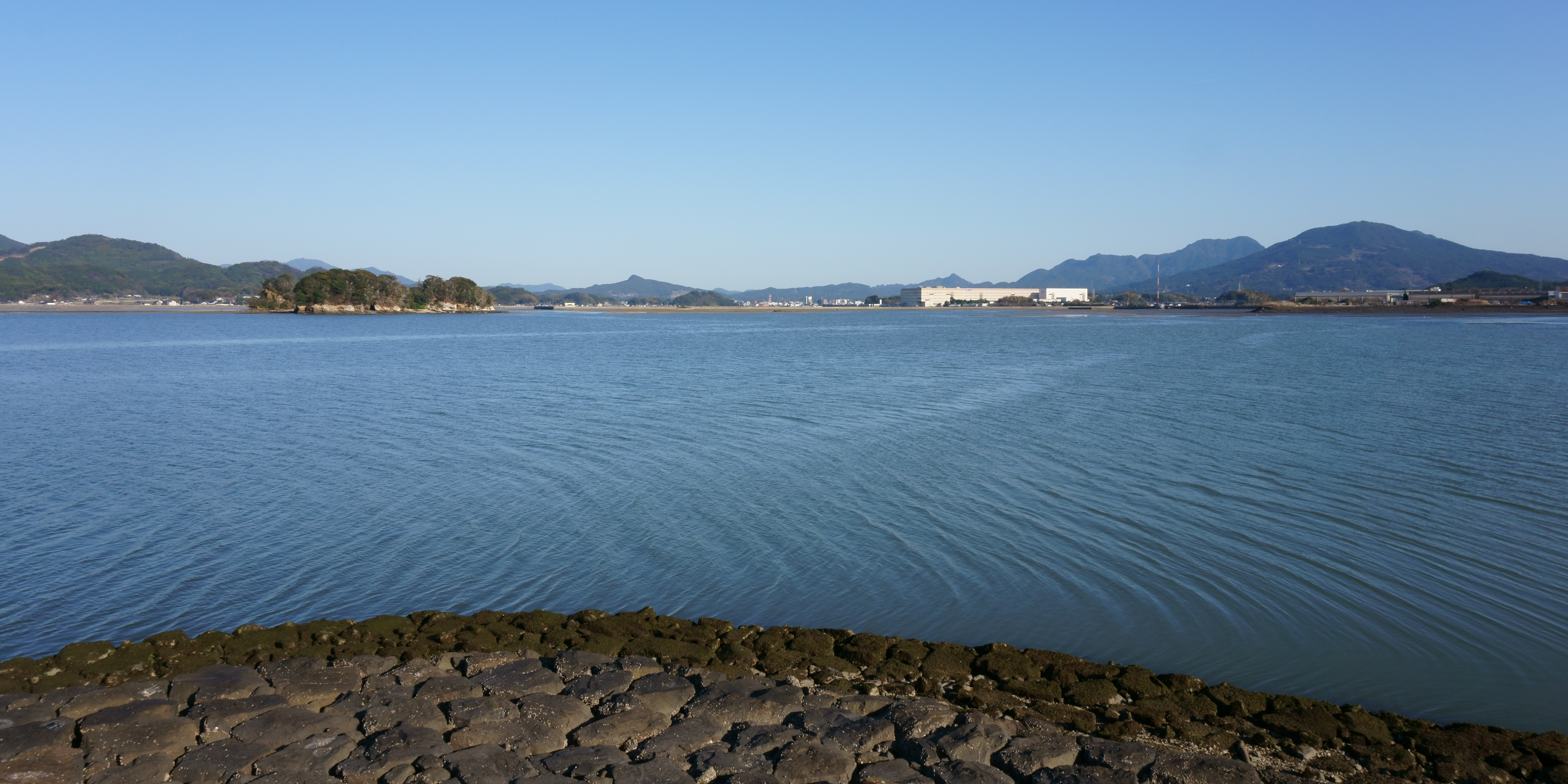 The Imari Bay, from a quay near Kusukutsu Park in Yamashirocho Kusukutsu, Imari city, Saga prefecture.